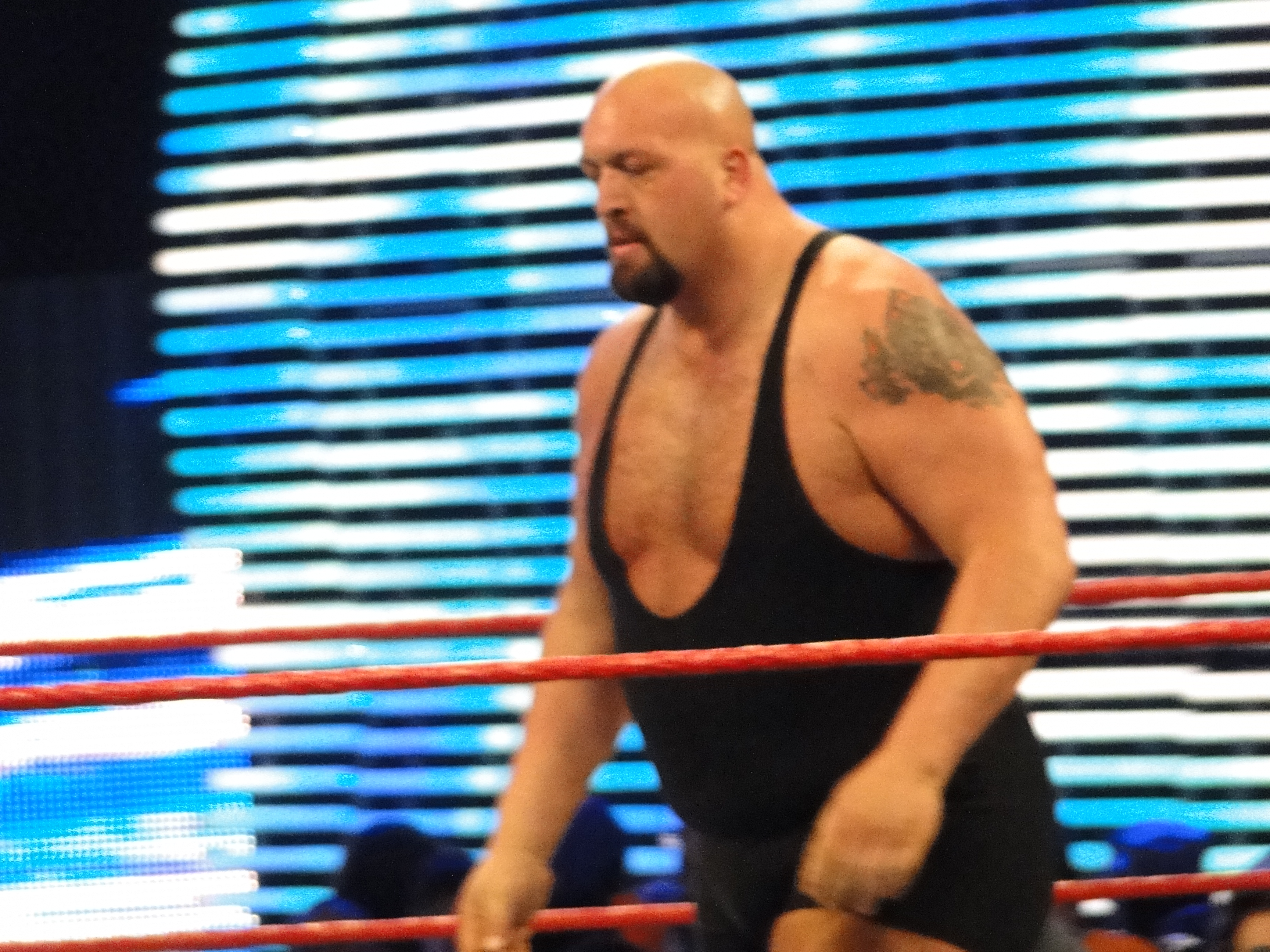 the big show at the battle royal